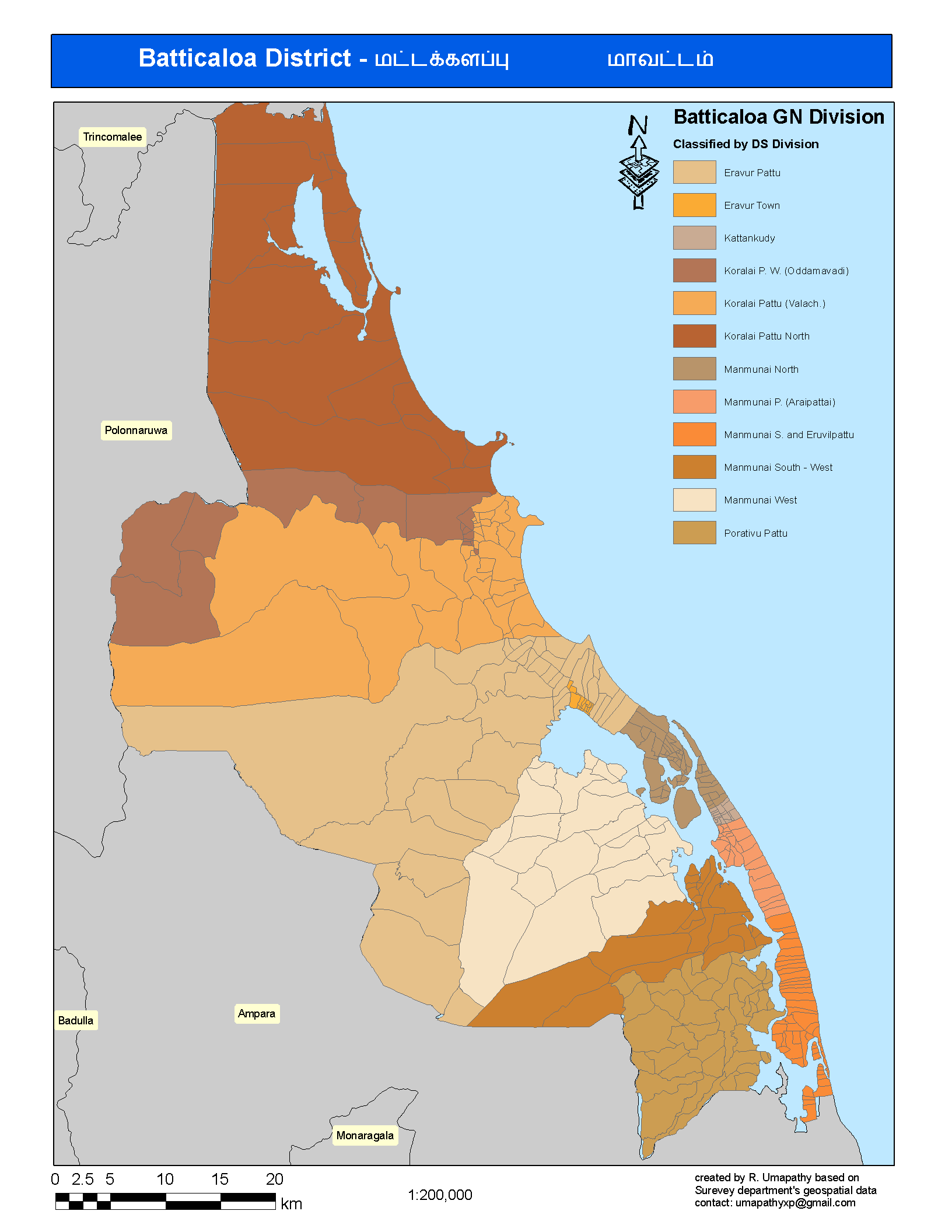 This is image of Batticaloa district in Sri Lanka